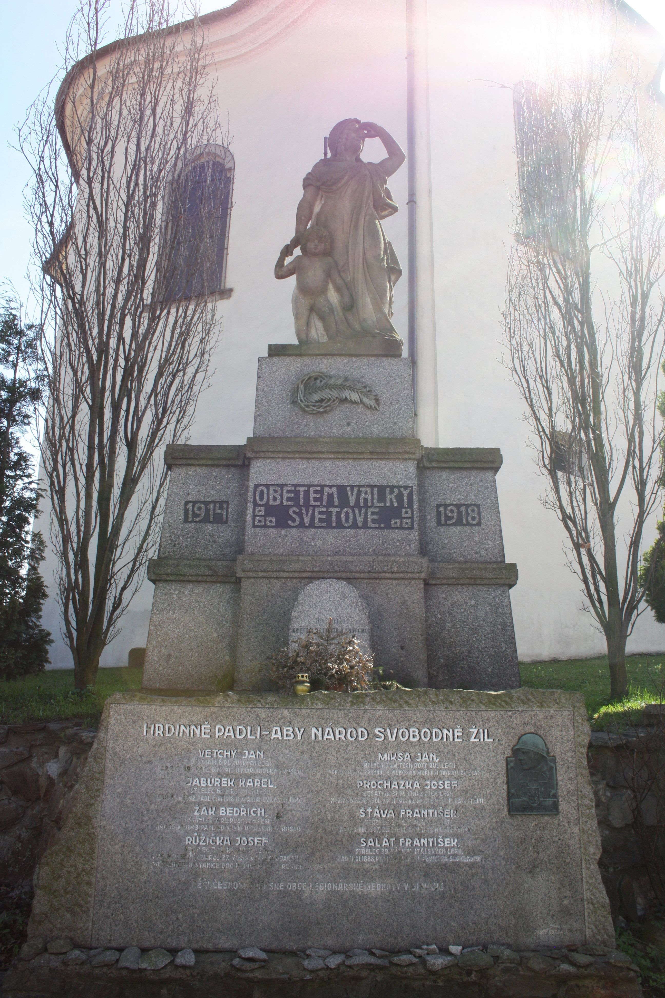 Victim memorial of World War I in Brtnice.